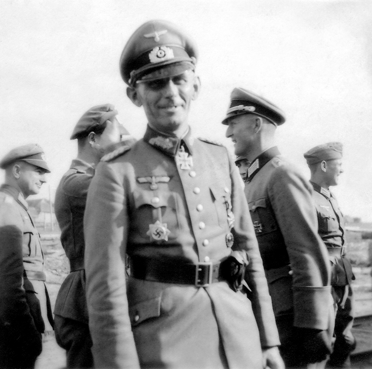 German Gen. Hans Schlemmer, Commander of the 134 I.D. between Dec.1941 / Feb.1944